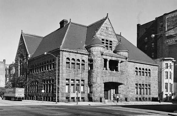 Chicago Historical Society, 632 North Dearborn Street, Chicago (Cook County, Illinois) - cropped This file comes from the Historic American Buildings Survey (HABS), Historic American Engineering Record (HAER) or Historic American Landscapes Survey (HALS). These are programs of the National Park Service established for the purpose of documenting historic places. Records consist of measured drawings, archival photographs, and written reports. This tag does not indicate the copyright status of the attached work. A normal copyright tag is still required. See Commons:Licensing for more information. This work is in the public domain in the United States because it is a work prepared by an officer or employee of the United States Government as part of that person’s official duties under the terms of Title 17, Chapter 1, Section 105 of the US Code. See Copyright. Note: This only applies to original works of the Federal Government and not to the work of any individual U.S. state, territory, commonwealth, county, municipality, or any other subdivision. This template also does not apply to postage stamp designs published by the United States Postal Service since 1978. (See § 313.6(C)(1) of Compendium of U.S. Copyright Office Practices). It also does not apply to certain US coins; see The US Mint Terms of Use. This file has been identified as being free of known restrictions under copyright law, including all related and neighboring rights.